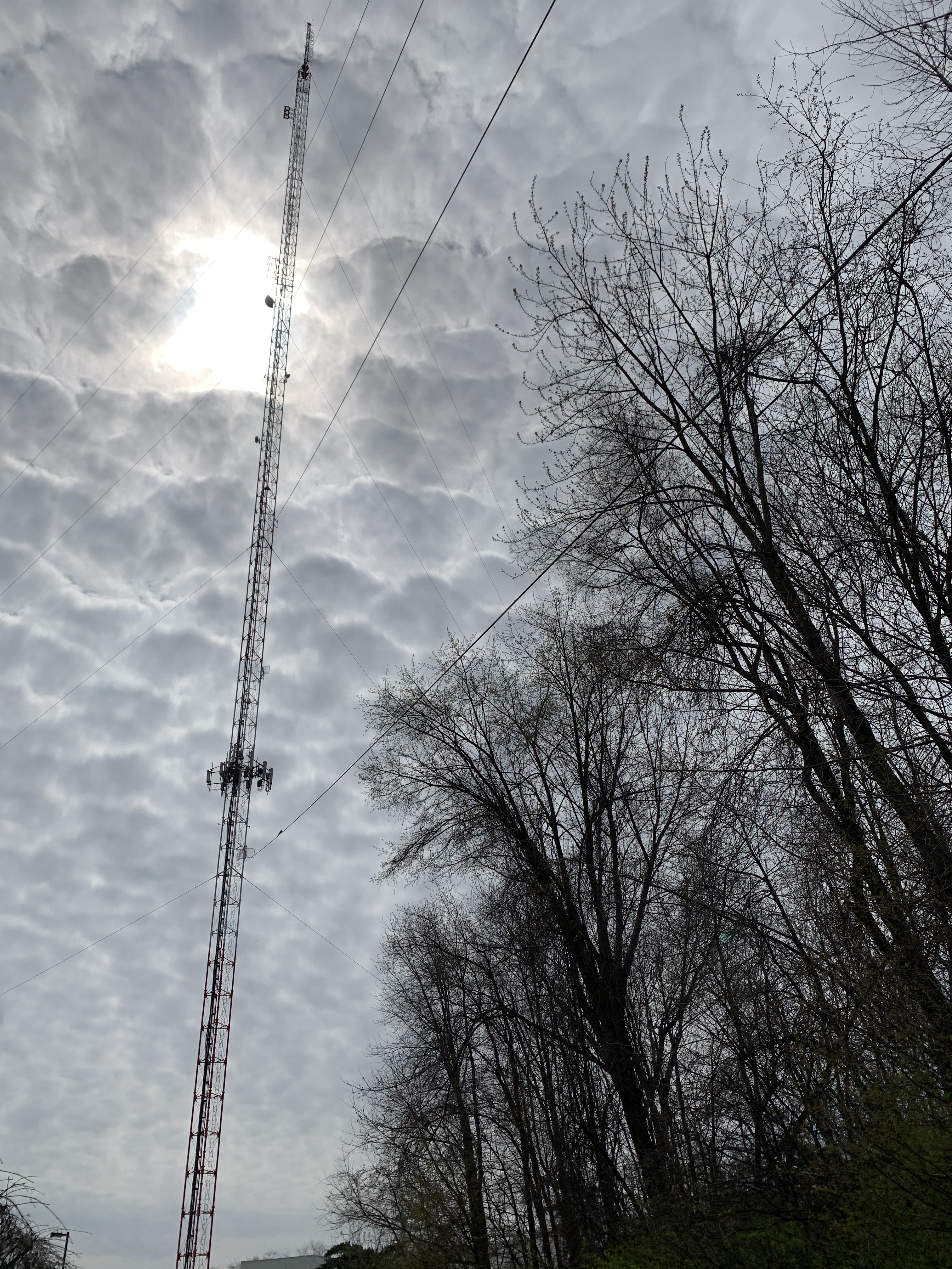 The Transmission tower for WOSU-FM located on West Dodridge Street in April 2020.